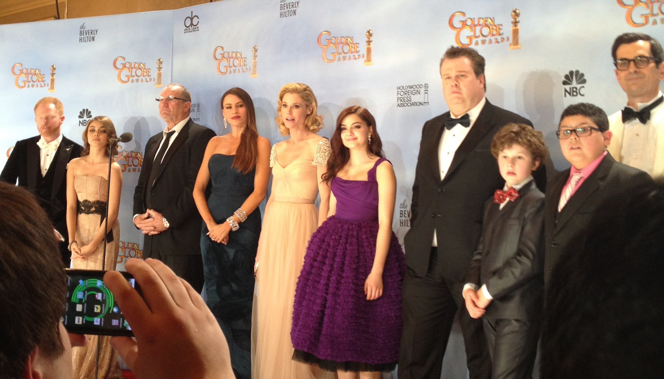 Cast of Modern Family at the 69th Annual Golden Globes Awards in 2012.